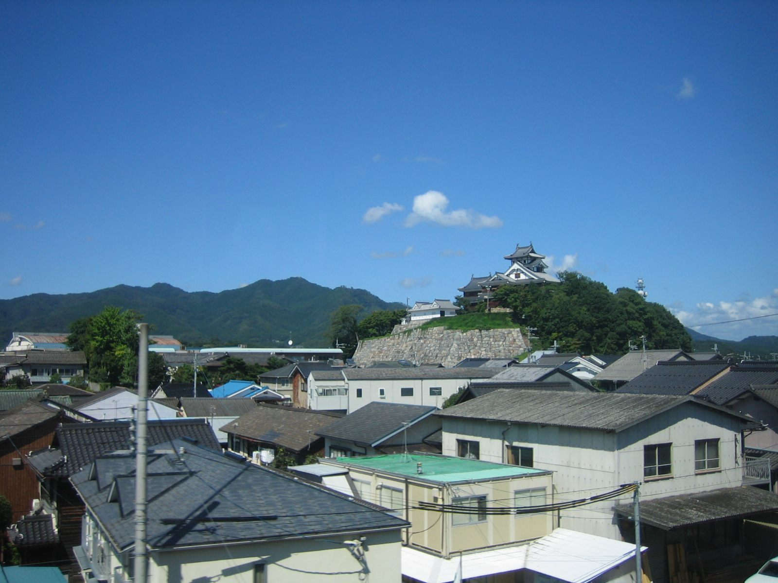 View of Fukuchiyama city with the Fukuchiyama Castle in the background.